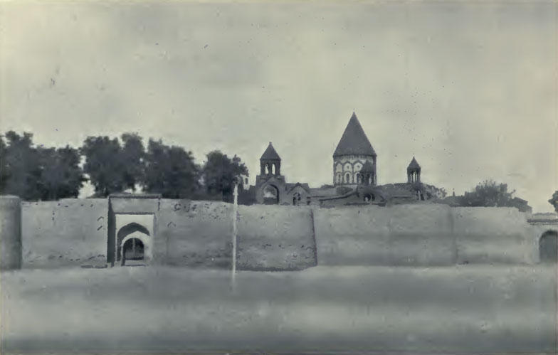 Echmiadzin cathedral, end of 19th century